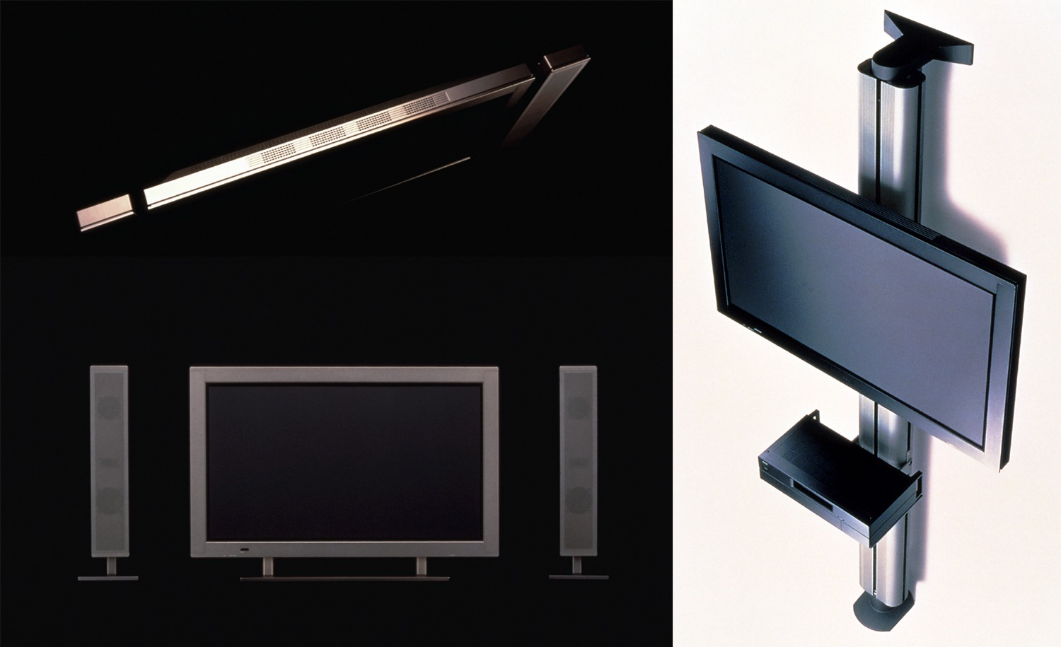 Works of KAWAKAMI Motomi 011-1998